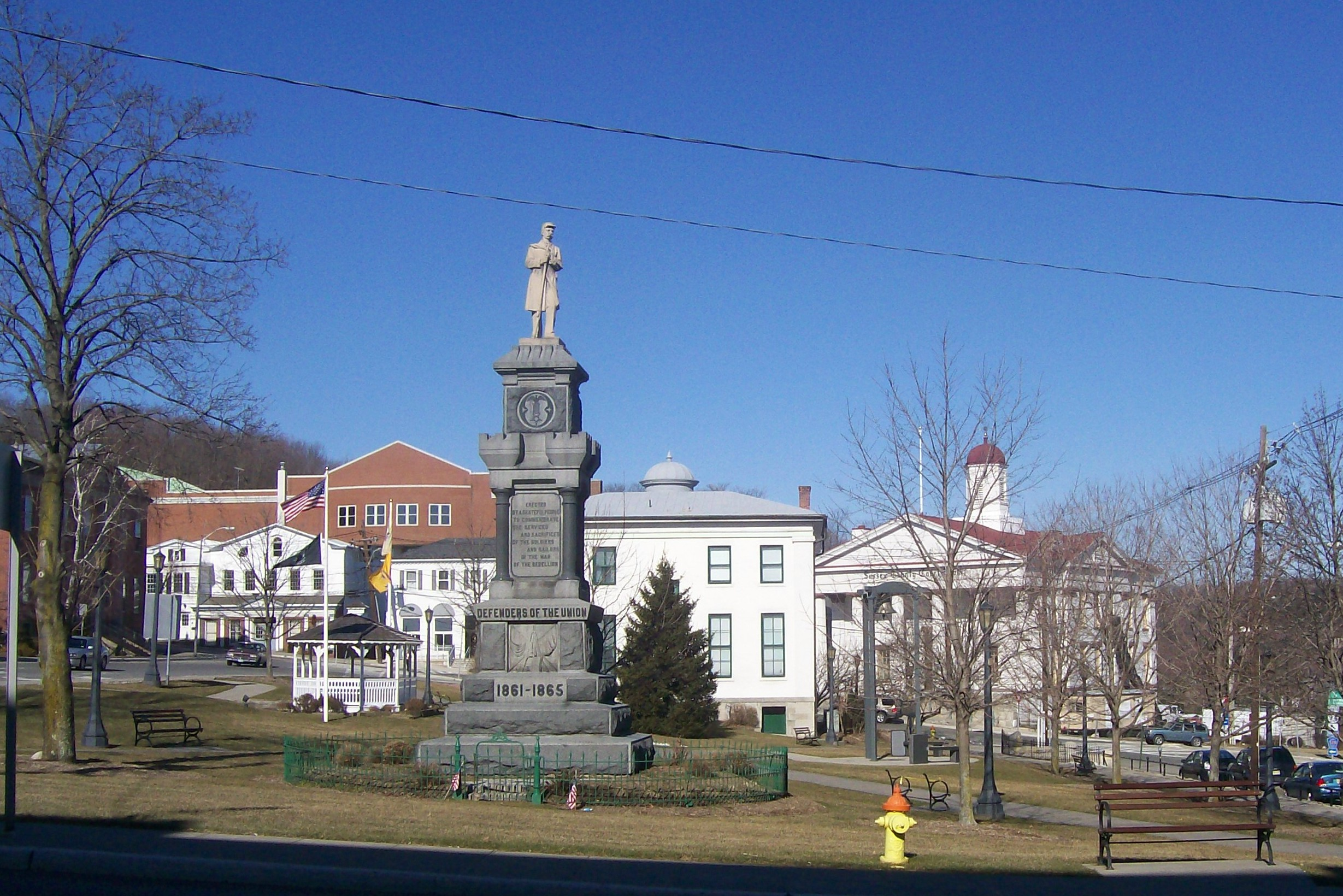 Newton Green, NJ